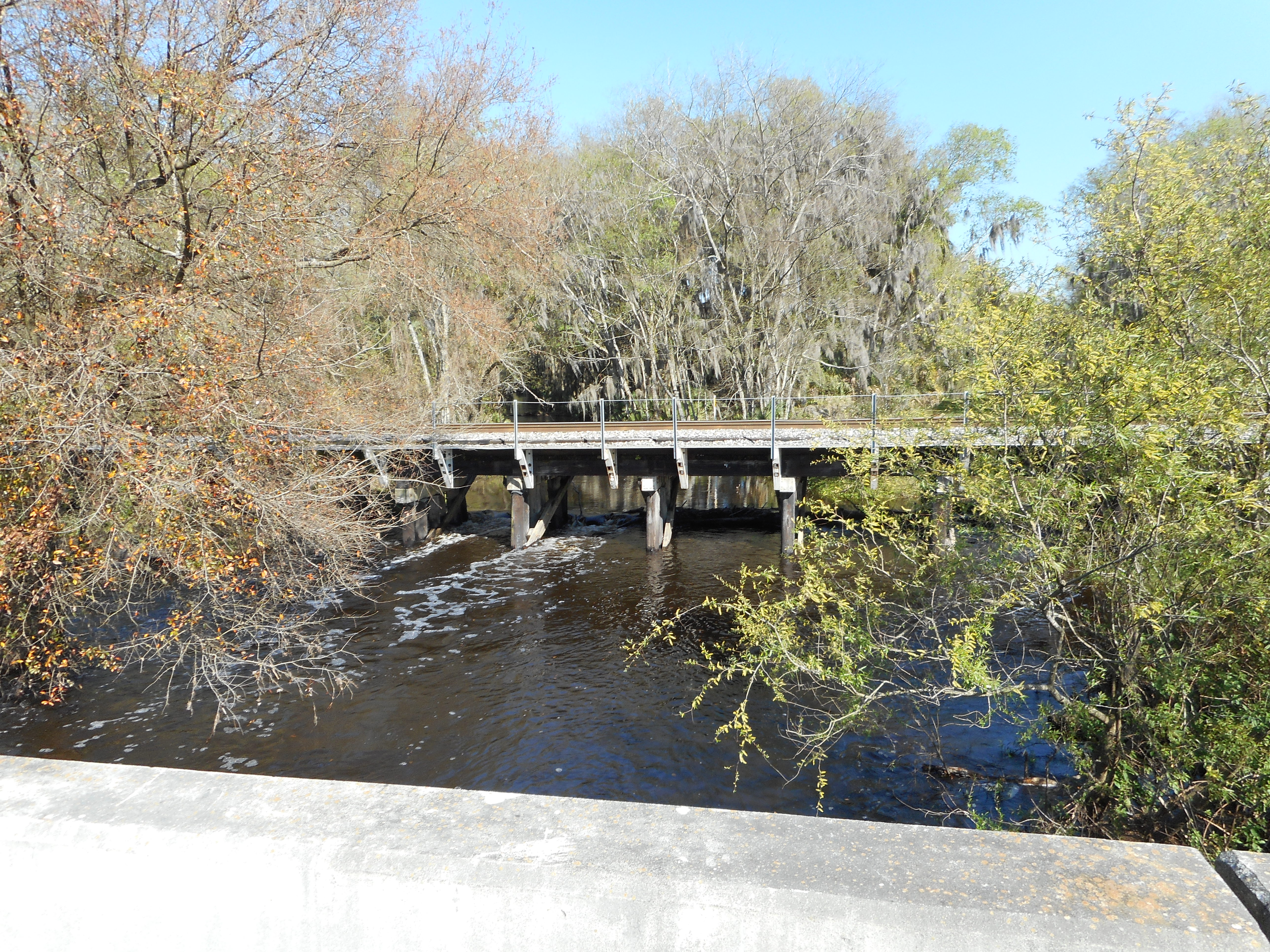 View of the CSX Yeoman Subdivision bridge from the Florida State Road 39 Ivey Edward Cannon Memorial Bridge over Blackwater Creek in northern Hillsborough County, between Plant City and Crystal Springs.